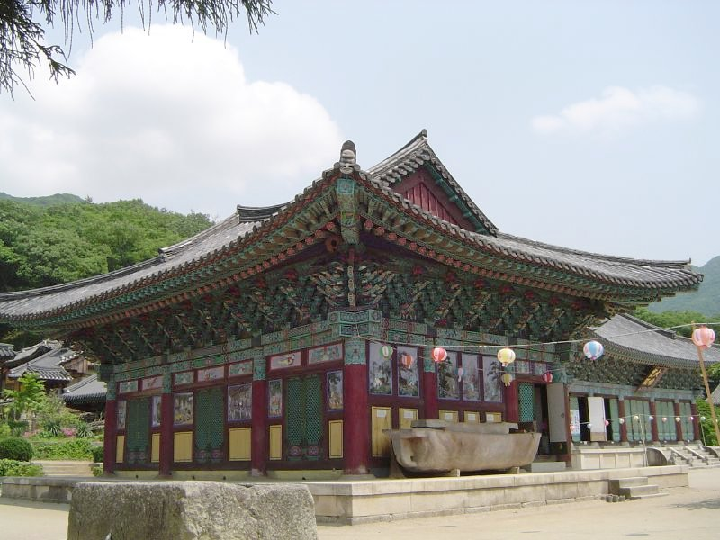 Songgwangsa, one of the most important Seon Buddhist monasteries in Korea and located in Jogyesan in Songgwang-myeon, Suncheon, Jeollanam-do, South Korea. This picture were taken in May 2004